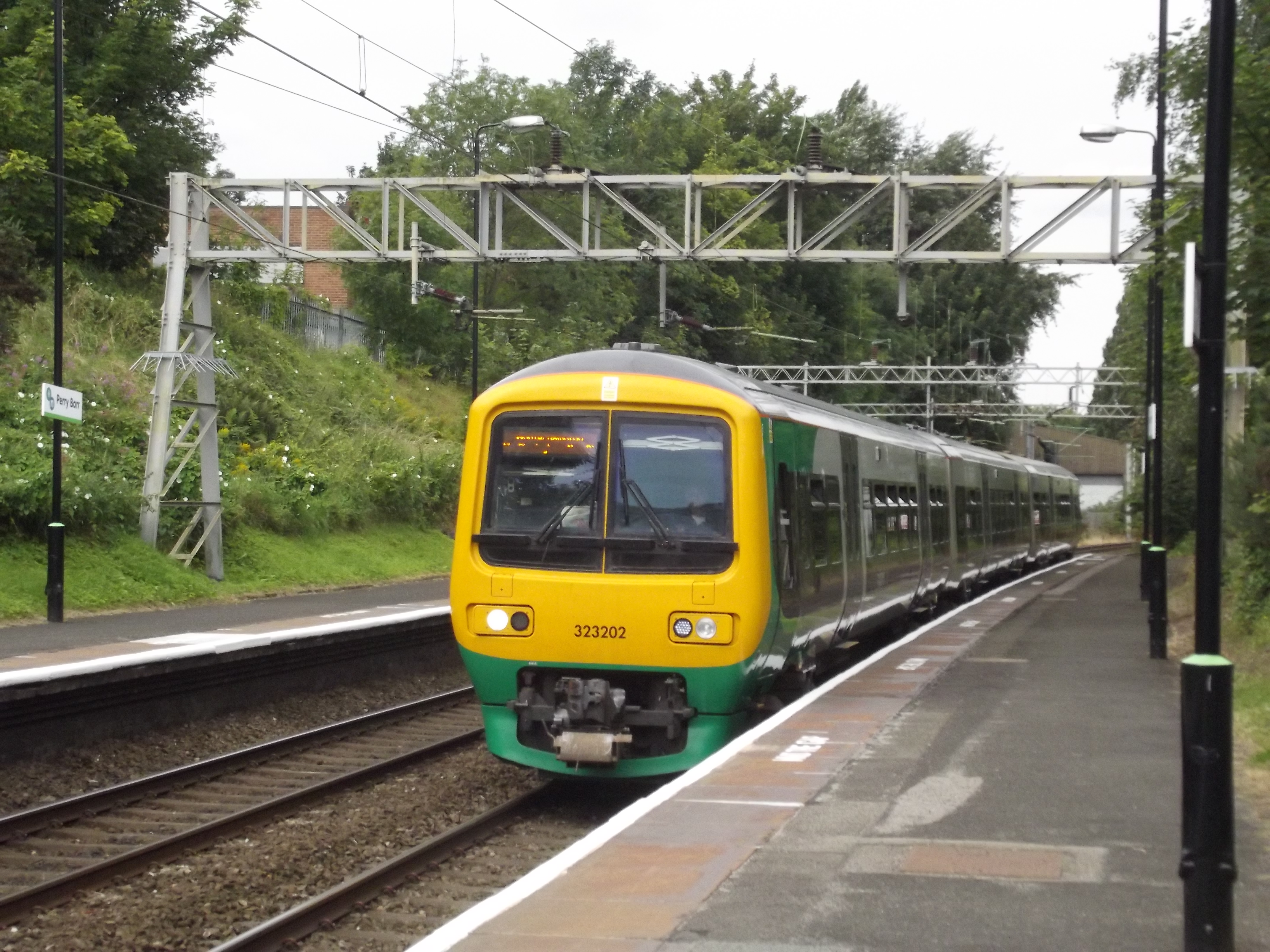 I went to Perry Barr Station in Perry Barr, before heading towards Perry Park. It is a few days before the Aviva Birmingham Grand Prix, and so I wanted to check out the park before the event (I wont be in Birmingham the day the Diamond League comes to Perry Barr). Perry Barr is on the Chase Line, and it heads towards Walsall and Rugely. The current station building dates to the 1960s. London Midland Class 323 trains at Perry Barr. My Class 323 train to Birmingham New Street. It was heading for Wolverhampton. 323202